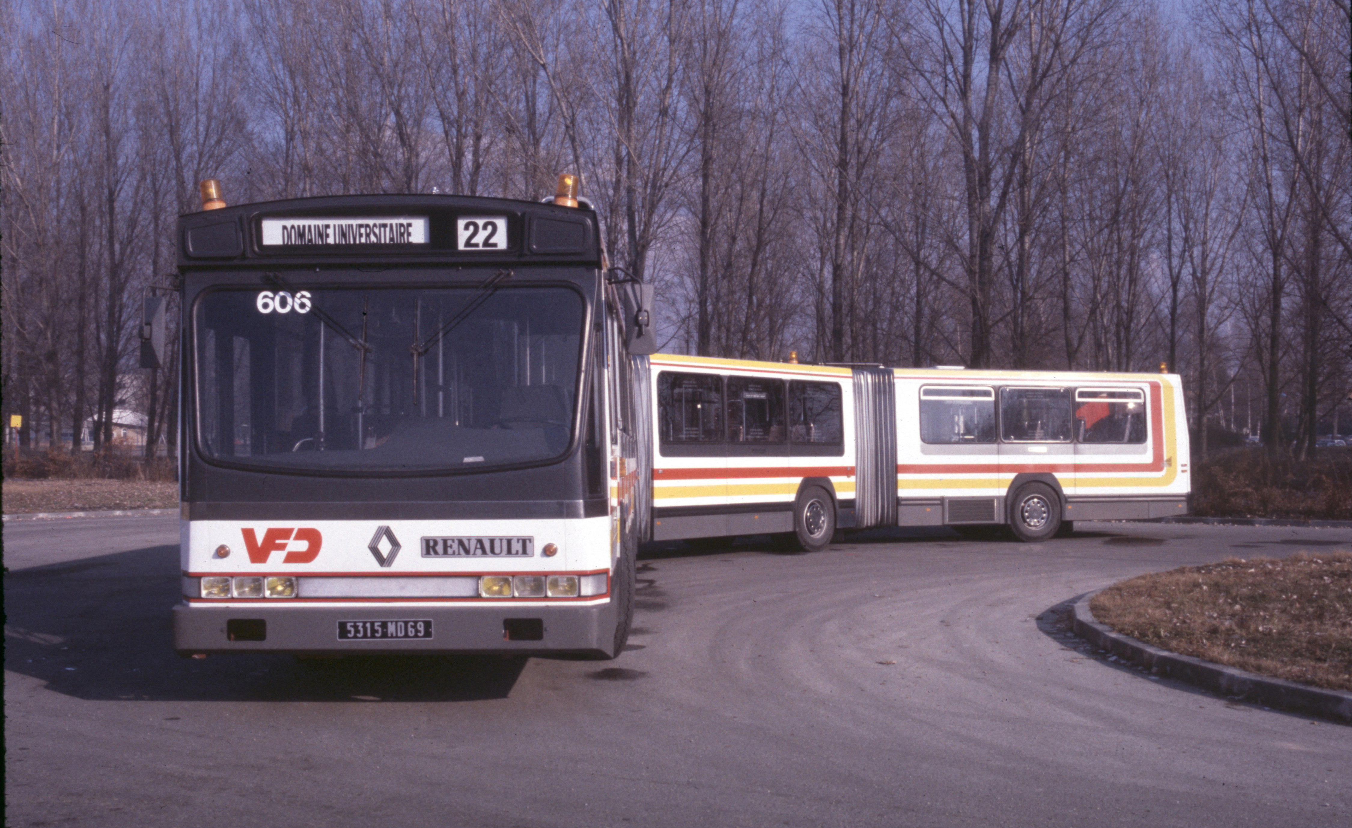 A Renault Mégabus (RVI, as loan for trials at the VFD) parked at the yard (Saint-Martin-d’Hères, France) on February 7, 1989.